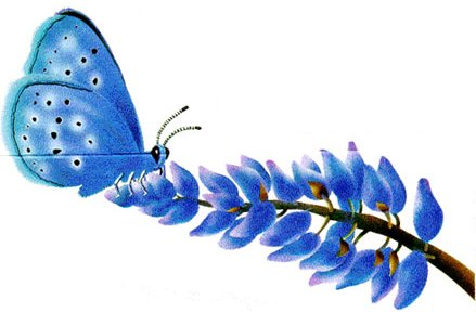 Mission Blue butterfly illustration